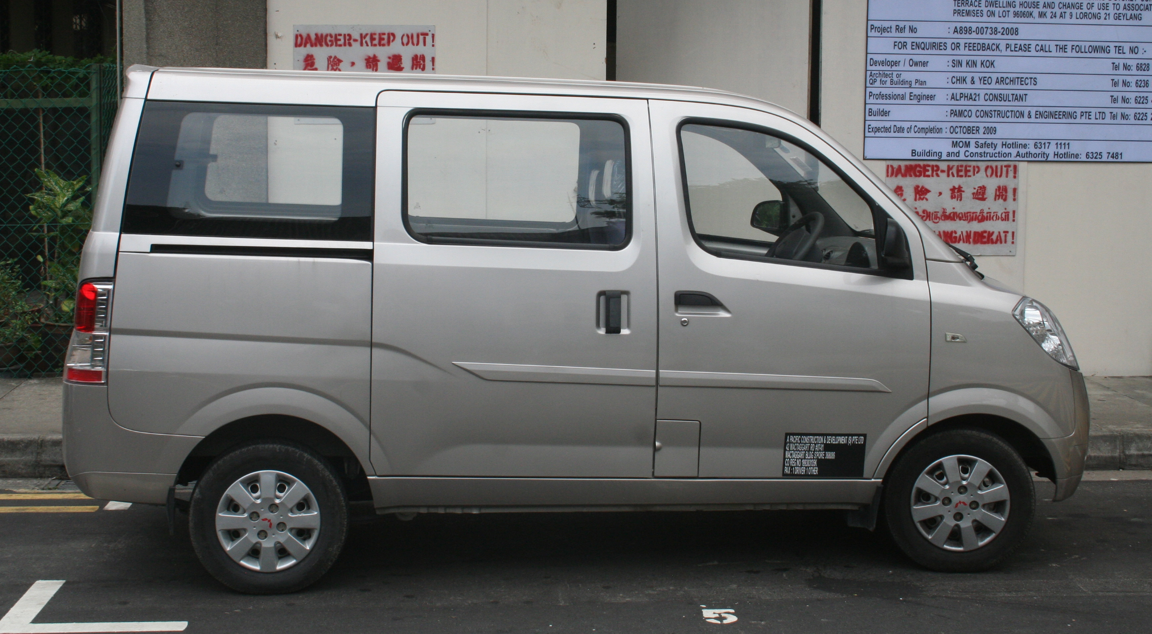 Wuling LZW6381-C3 Sunshine van in Singapore. The higher spec versions are sold there as the Wuling Journey, while it is labeled Wuling Hongtu and Chevrolet N200 elsewhere.